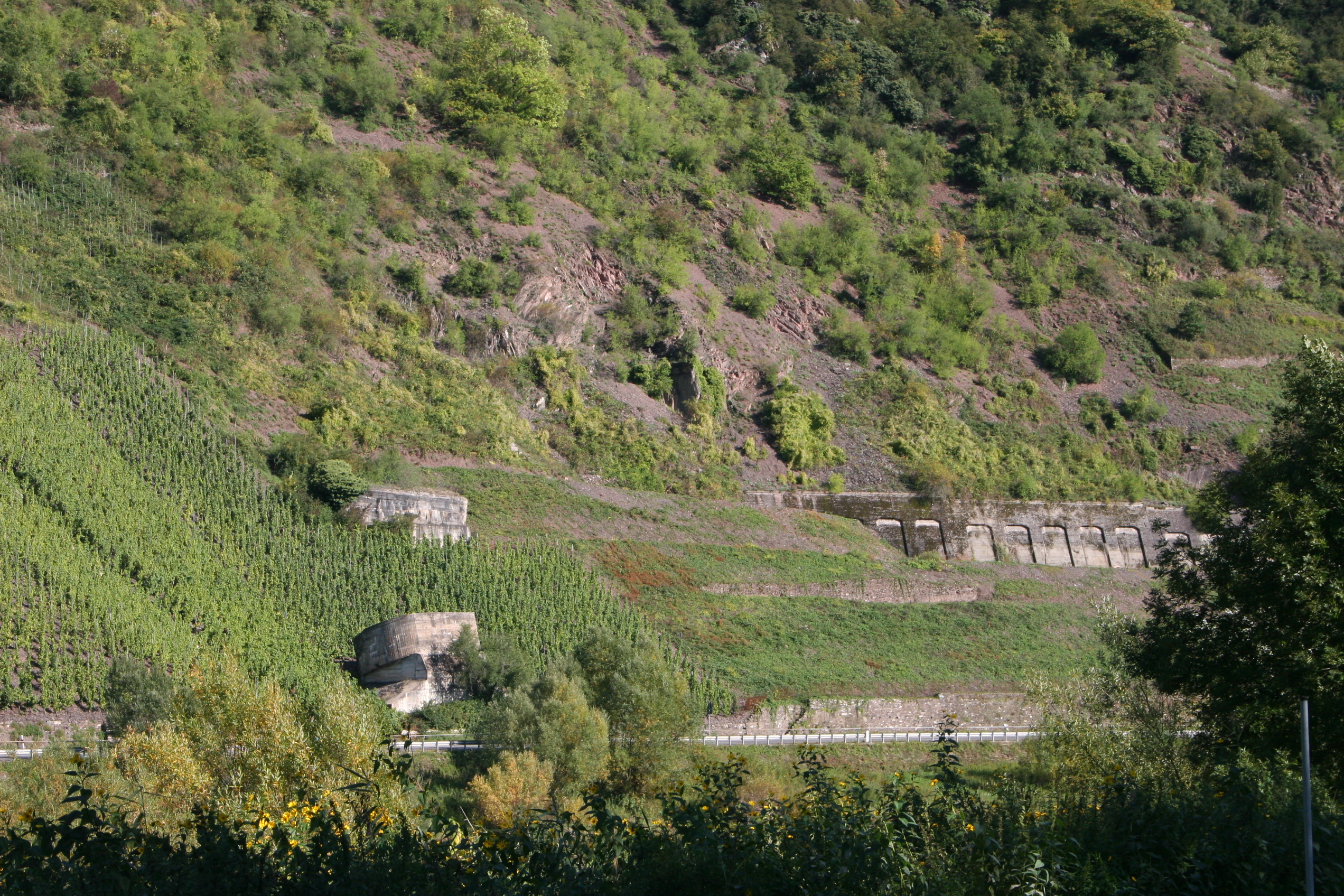 Water tanks and abandoned railway dam near the southern entrance of the Treiser Tunnel north of the village of Bruttig on the Mosel river. Remnant of a planned and partially built, but never completed strategic railway. The watertanks, built in 1944, were part of the constrution site for electronic devices within the tunnel. Inmates of the Concentration Camp of Bruttig-Treis had to work there.